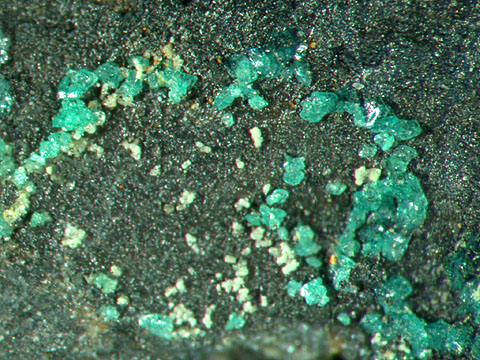 Tsumebite Locality: Blue Bell claims (Hard Luck claims), Baker area, San Bernardino County, California, USA (Locality at ) Size: 8.0 x 3.3 x 2.2 cm. Tsumebite is a rather rare Lead Copper Phosphate Sulfate and is only found from a few world localities. It was obviously named after the famous Tsumeb mine in Namibia. This piece is a good reference specimen of featuring vibrant green micro crystal aggregates of Tsumebite on matrix. If nothing else it is a unique collector's specimen from this secondary ore mineral locality in California. Ex. Brian Kosnar Collection.